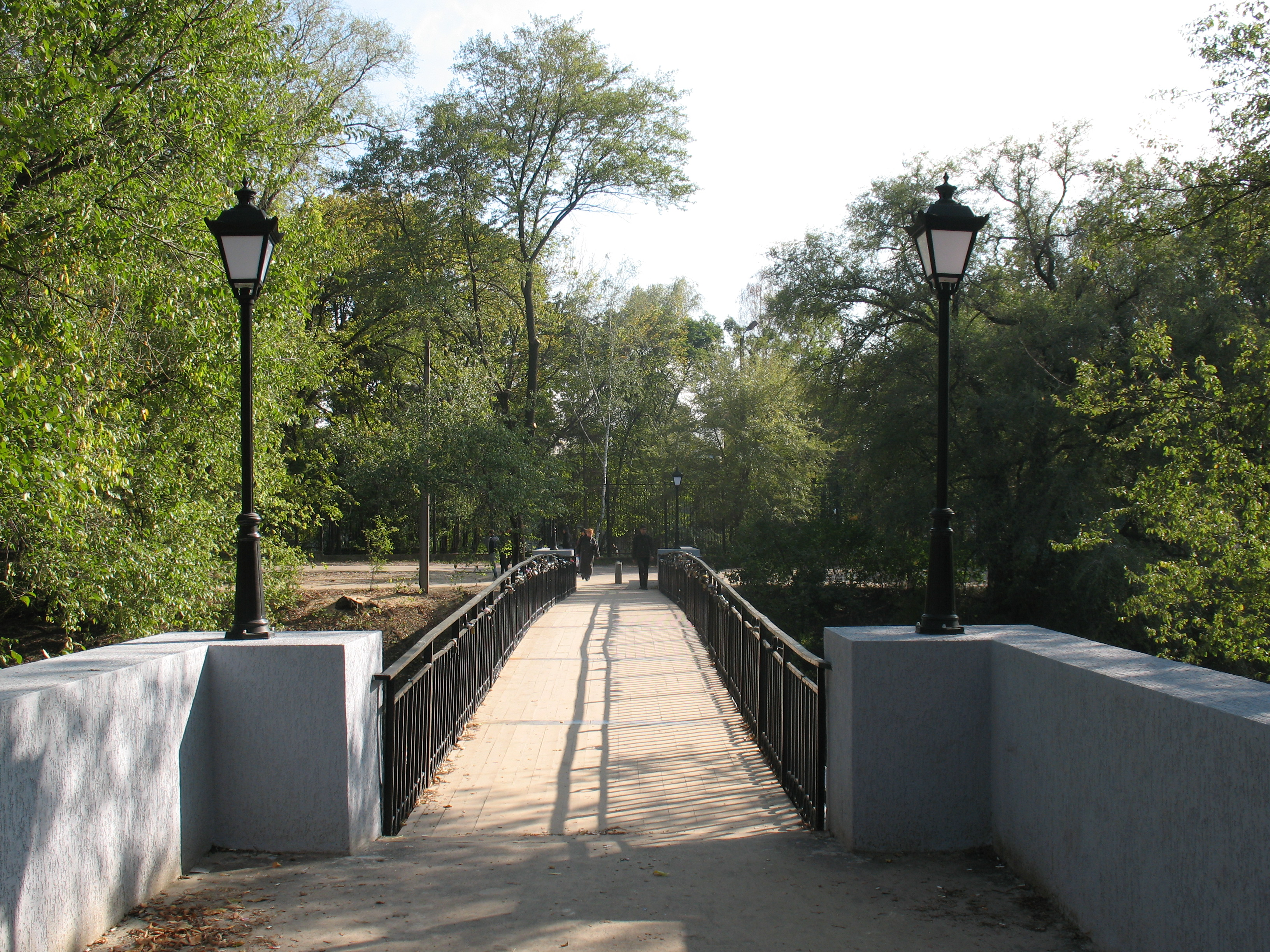 Kharkov. Passionaria Bridge.